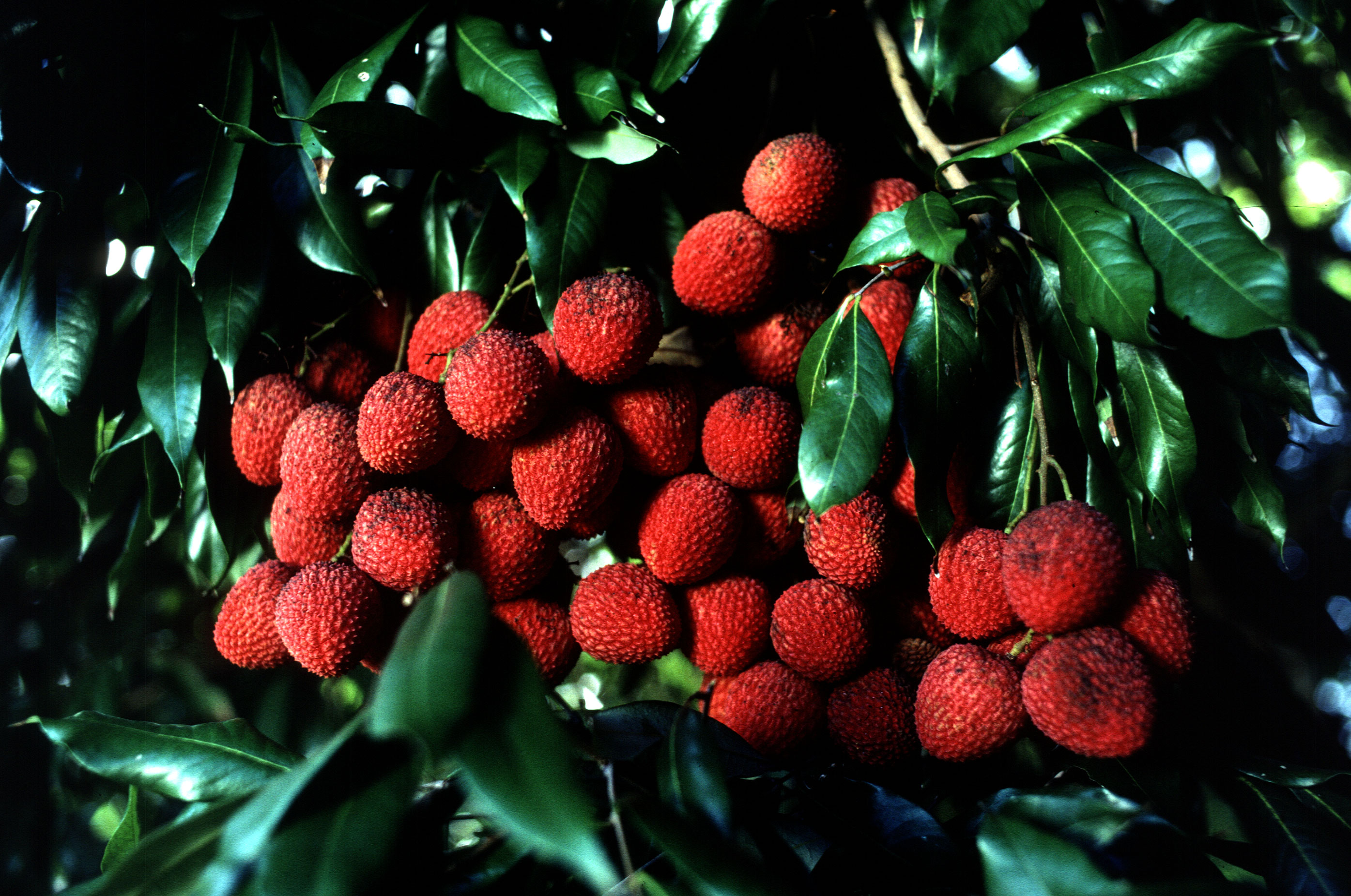 Lychee (Litchi chinensis)